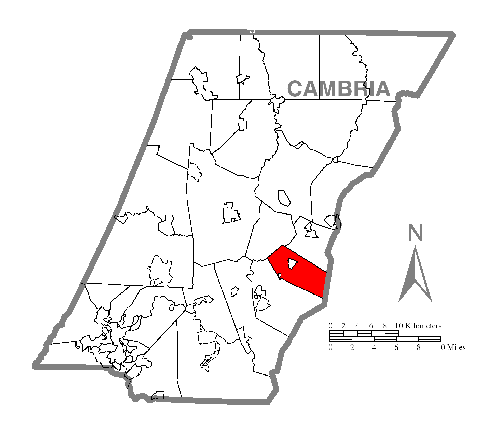 A map of Cambria County showing Washington Township, Pennsylvania (alternate) highlighted on the map.